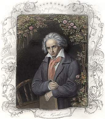 Posthumous portrait of Ludwig van Beethoven